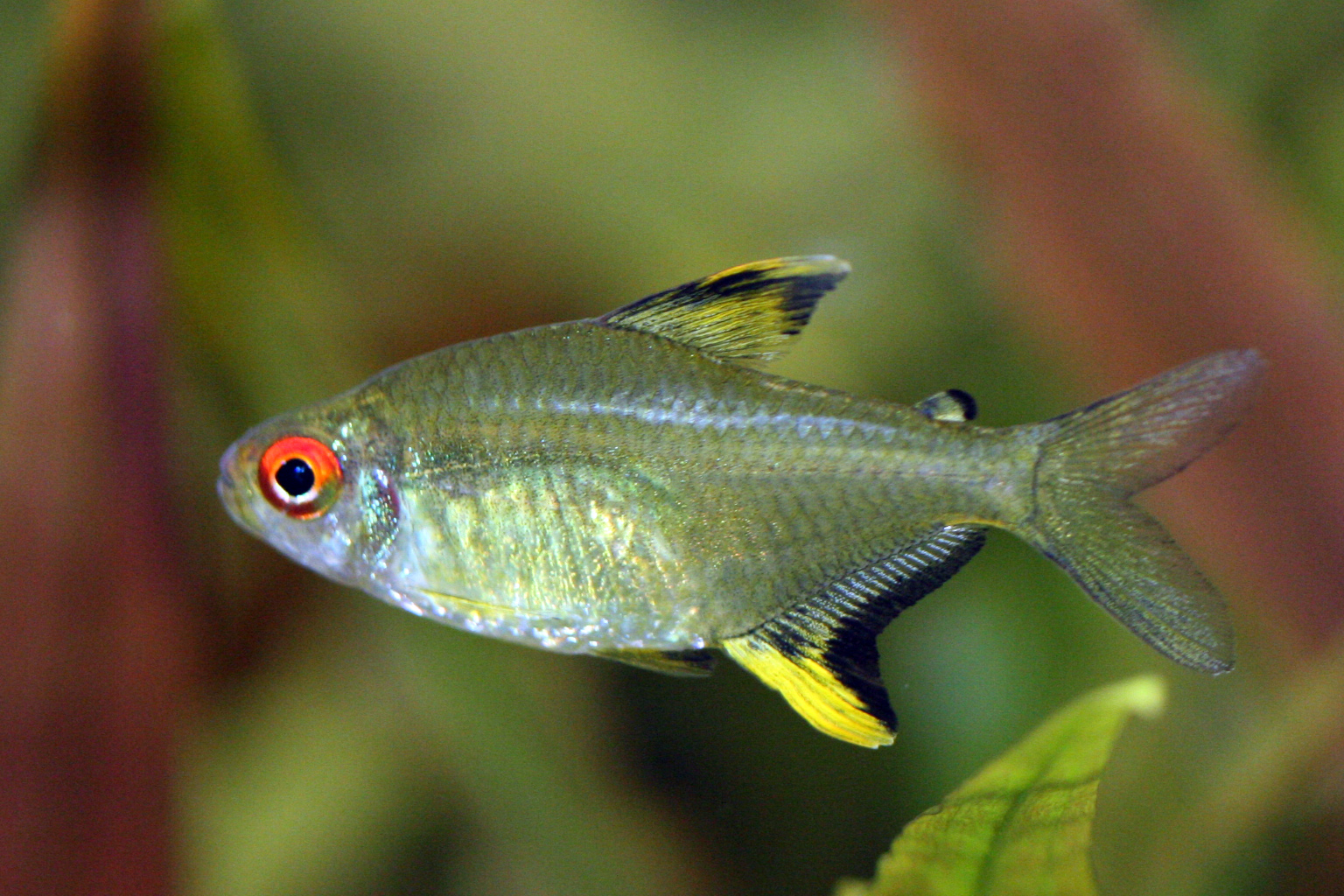 Hyphessobrycon pulchripinnis - Zitronensalmler (Länge: ca. 3cm)